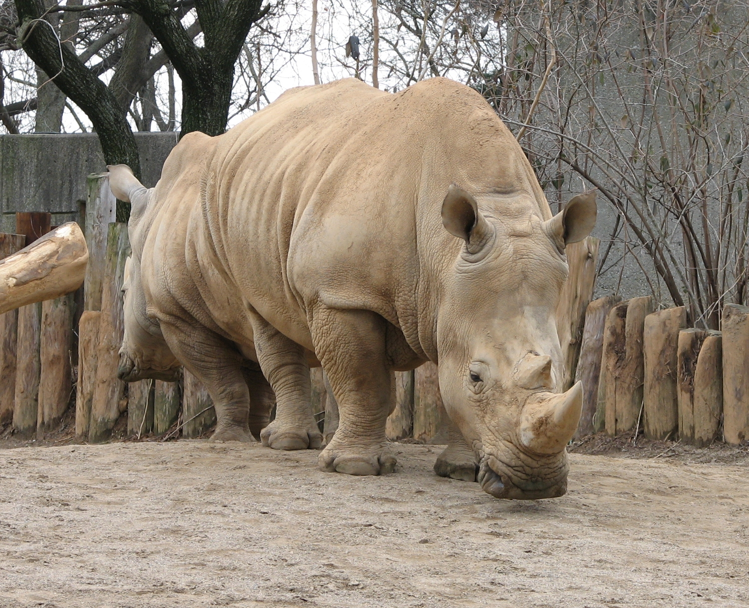 Southern White Rhino - Ceratotherium simum simum